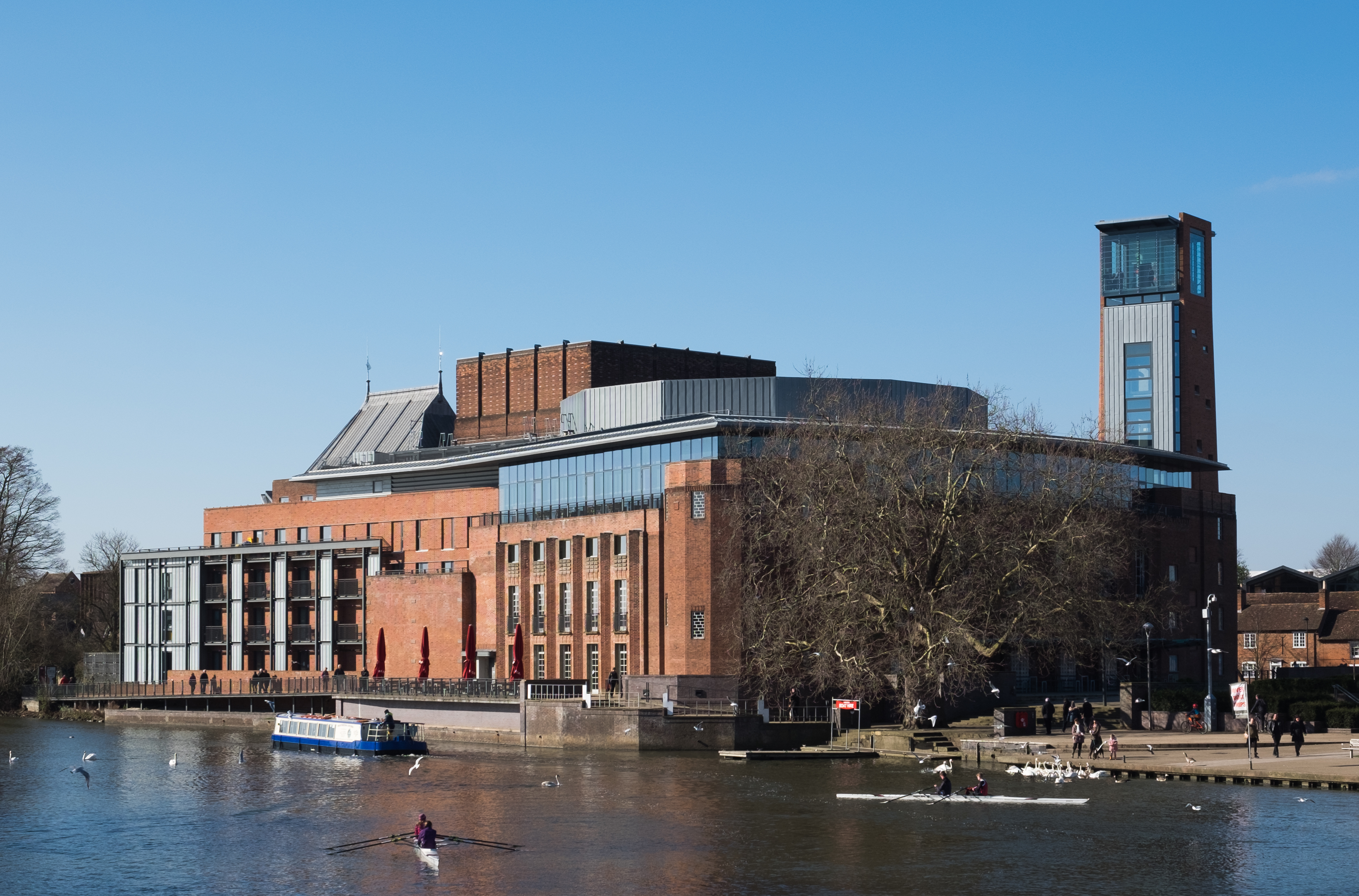 The Royal Shakespeare Theatre, Stratford-upon-Avon, England - viewed from the old tram bridge over the River Avon to the east. This is a grade II* listed building in England.